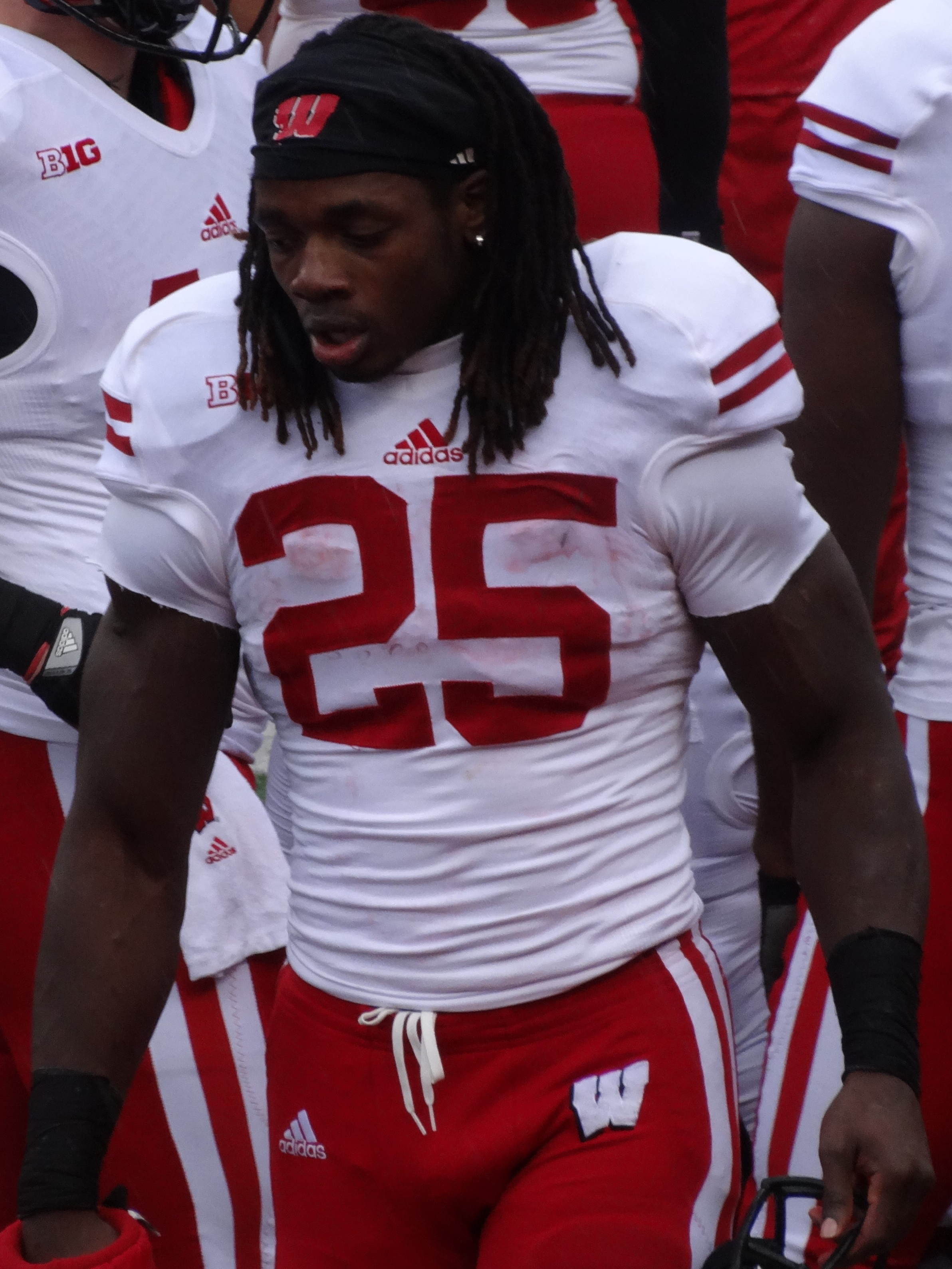 Wisconsin Badgers runningback Melvin Gordon 2014 in New Jersey versus Rutgers Scarlet Knights.